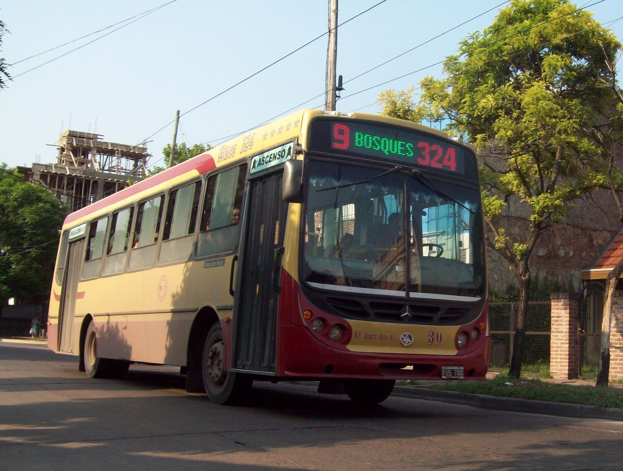 Metalpar suburban bus (reg. FUS 744, #30) in Buenos Aires Province, Argentina. Colectivo, line 324, Micro Ómnibus Primera Junta S.A. operator.